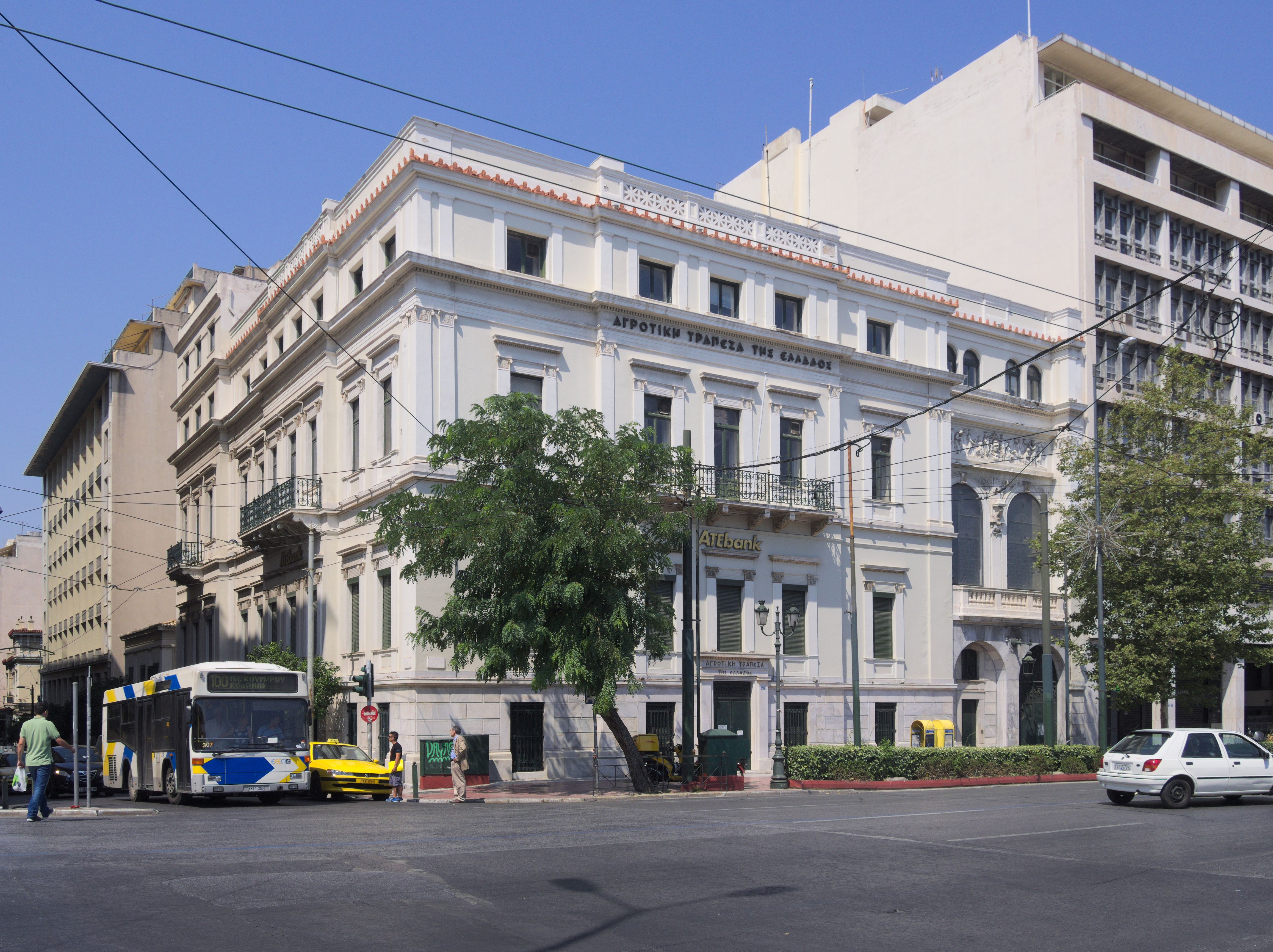 Serpieri Mansion, seen from across Panepistimiou Avenue.